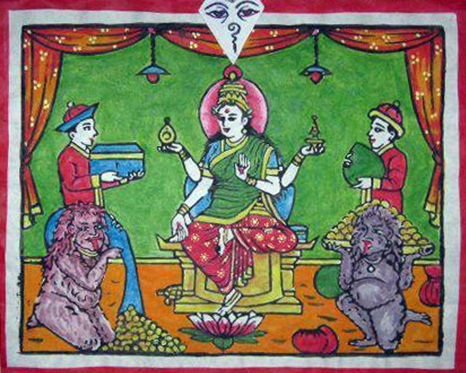 Drawing of Laxmi, goddess of wealth, and a pair of khyahs in the foreground.